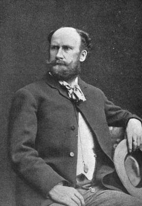 Photographic portrait of American landscape painter William Preston Phelps (1848-1917). From The New England Magazine, Vol. XVII, No. 3 (November 1897), p. 364